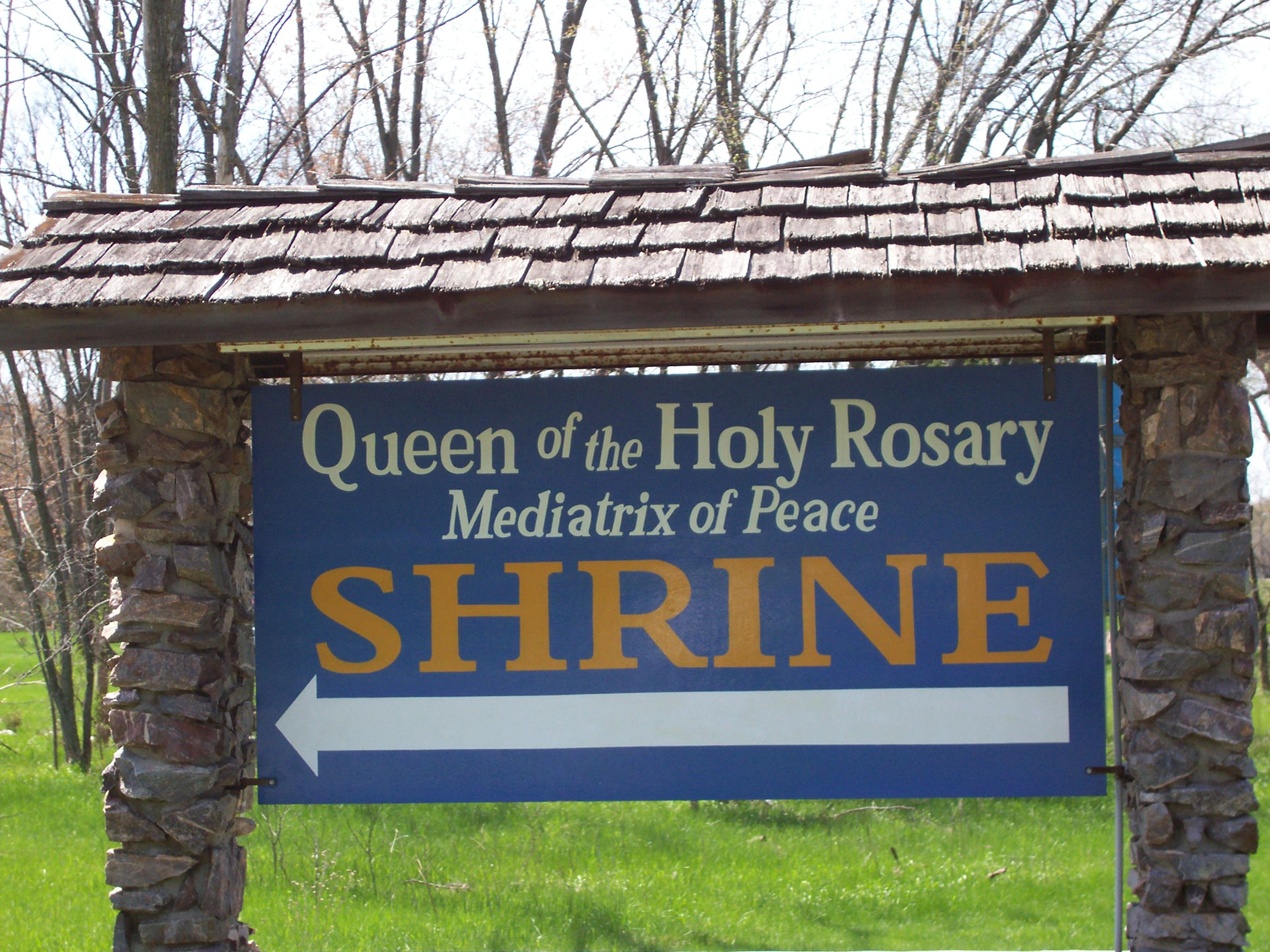 The sign for the Necedah Shrine east of Necedah, Wisconsin, USA.